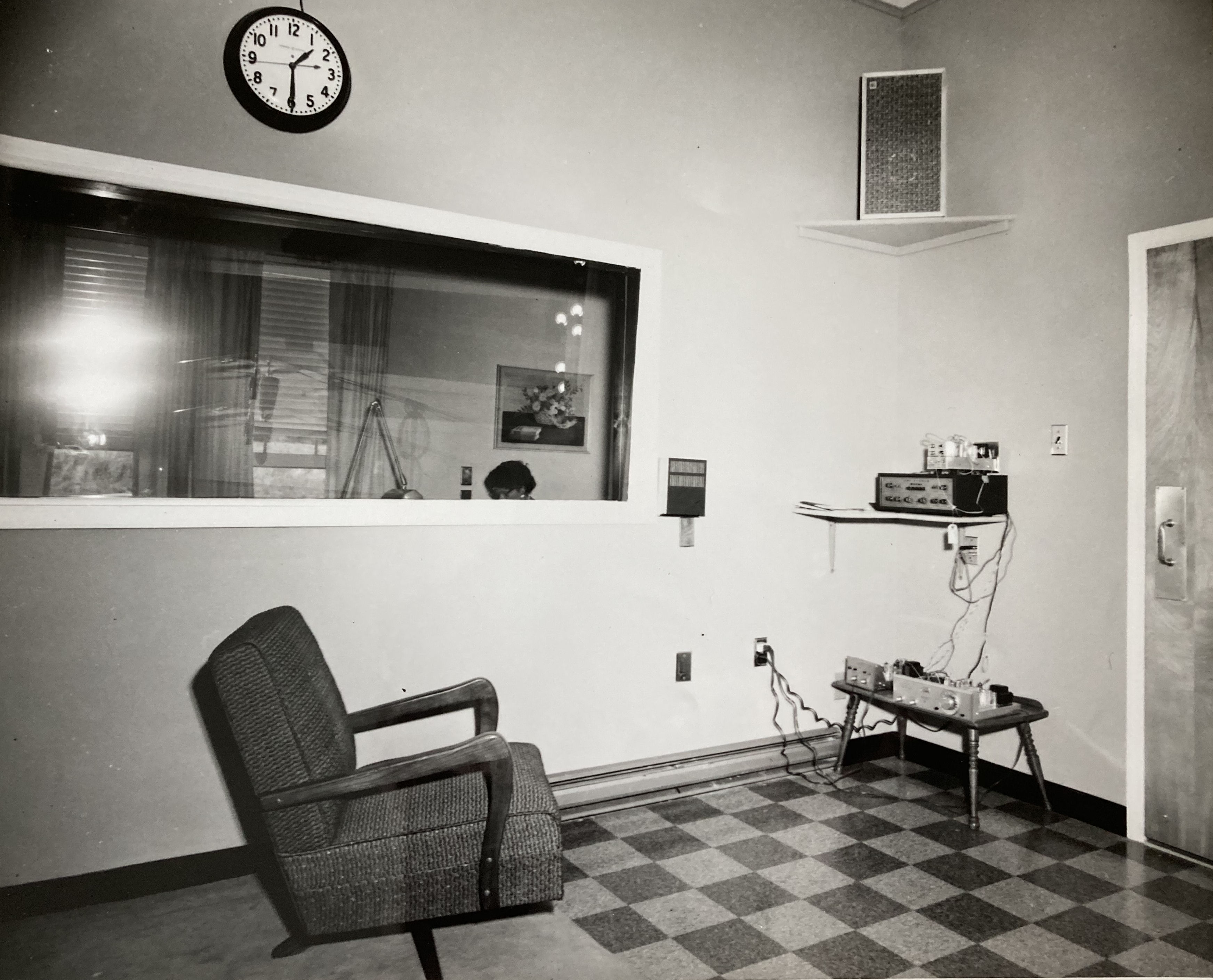 Lobby of WDHA, circa 1961.